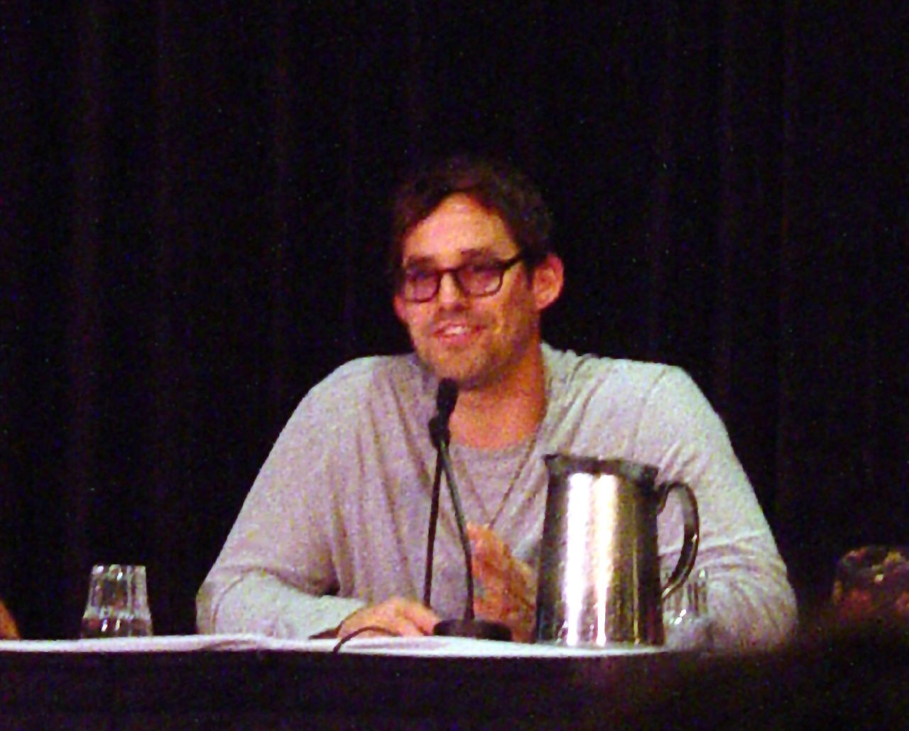 Actor Nicholas Brendon at DragonCon2006.